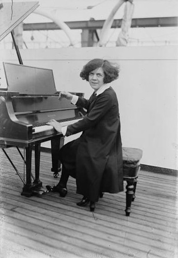 Ethel Leginska (1886–1970), English composer